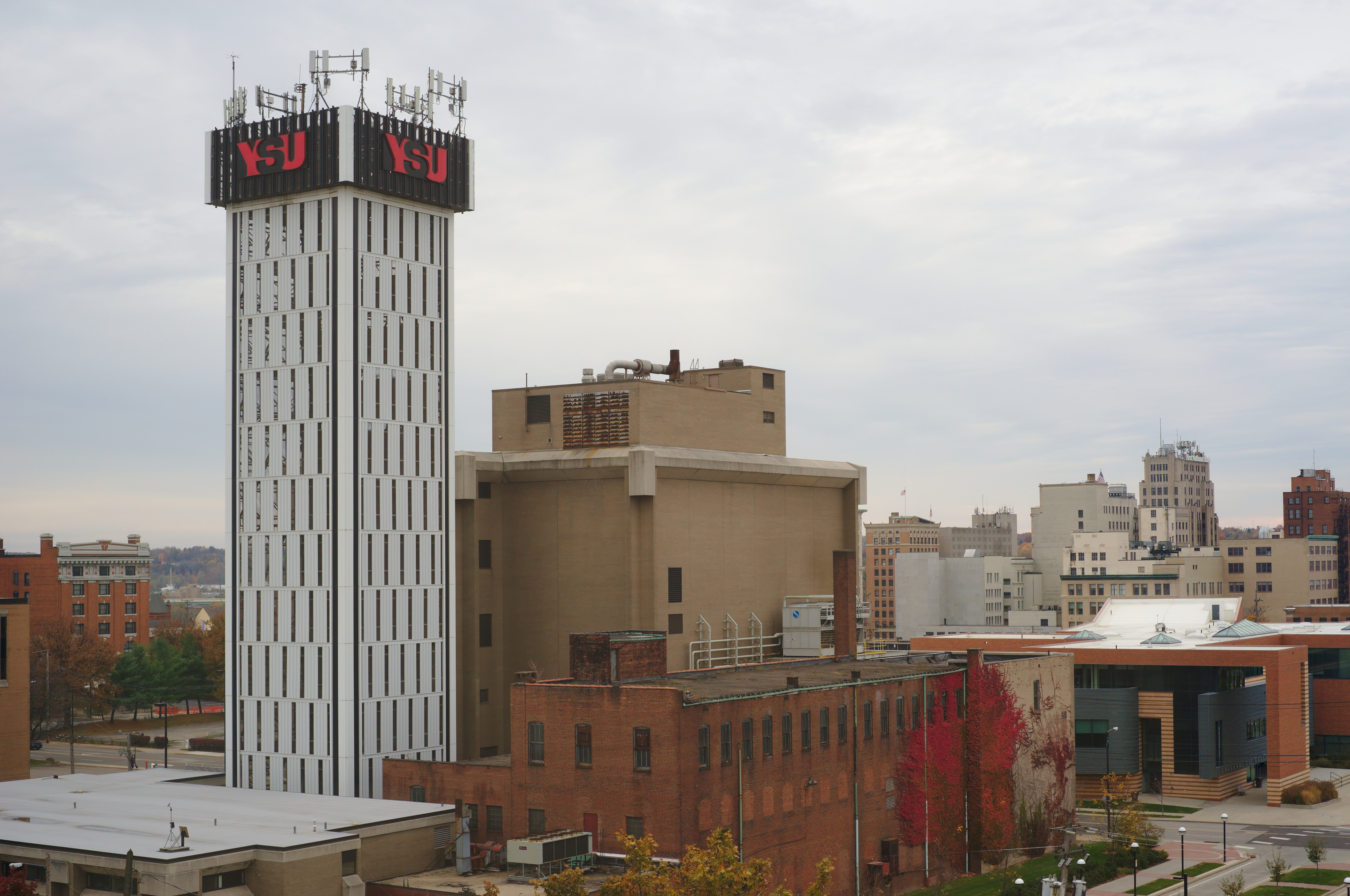 The clock tower of Youngstown State University in Ohio as seen from the north.